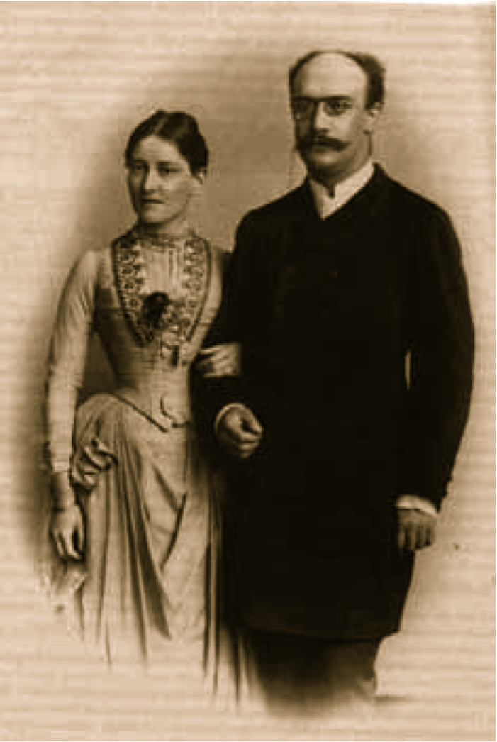 Thekla und Hugo Landé in Elberfeld (today a borrough of Wuppertal), Germany, both politicians of the Social Democratic Party (SPD). Picture of about 1890.